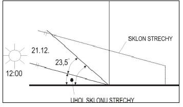 Sklon strachy sokratovho domu